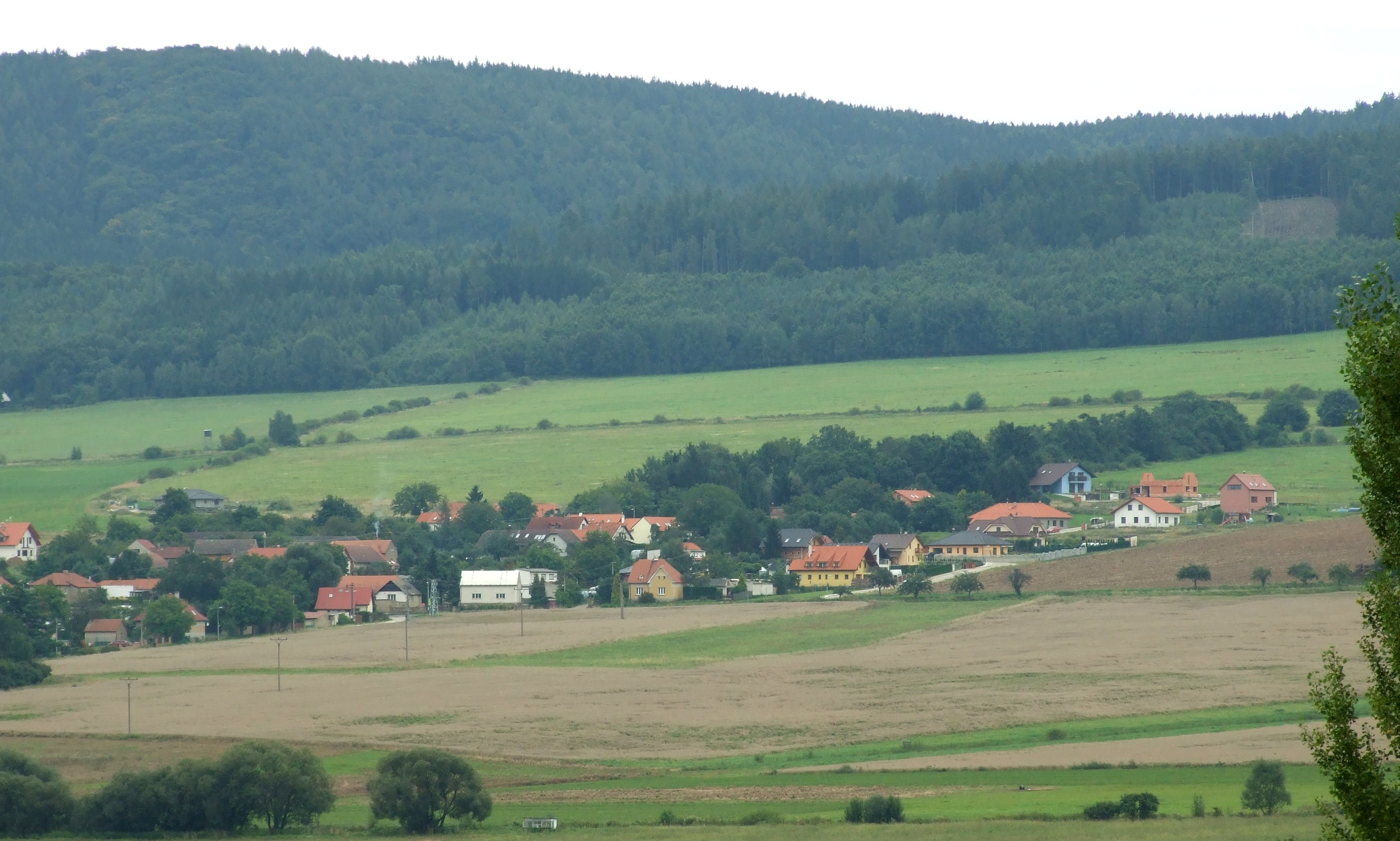 Town of Svinaře seen from south (near Liteň) - Beroun District, Central Bohemian Region, CZ